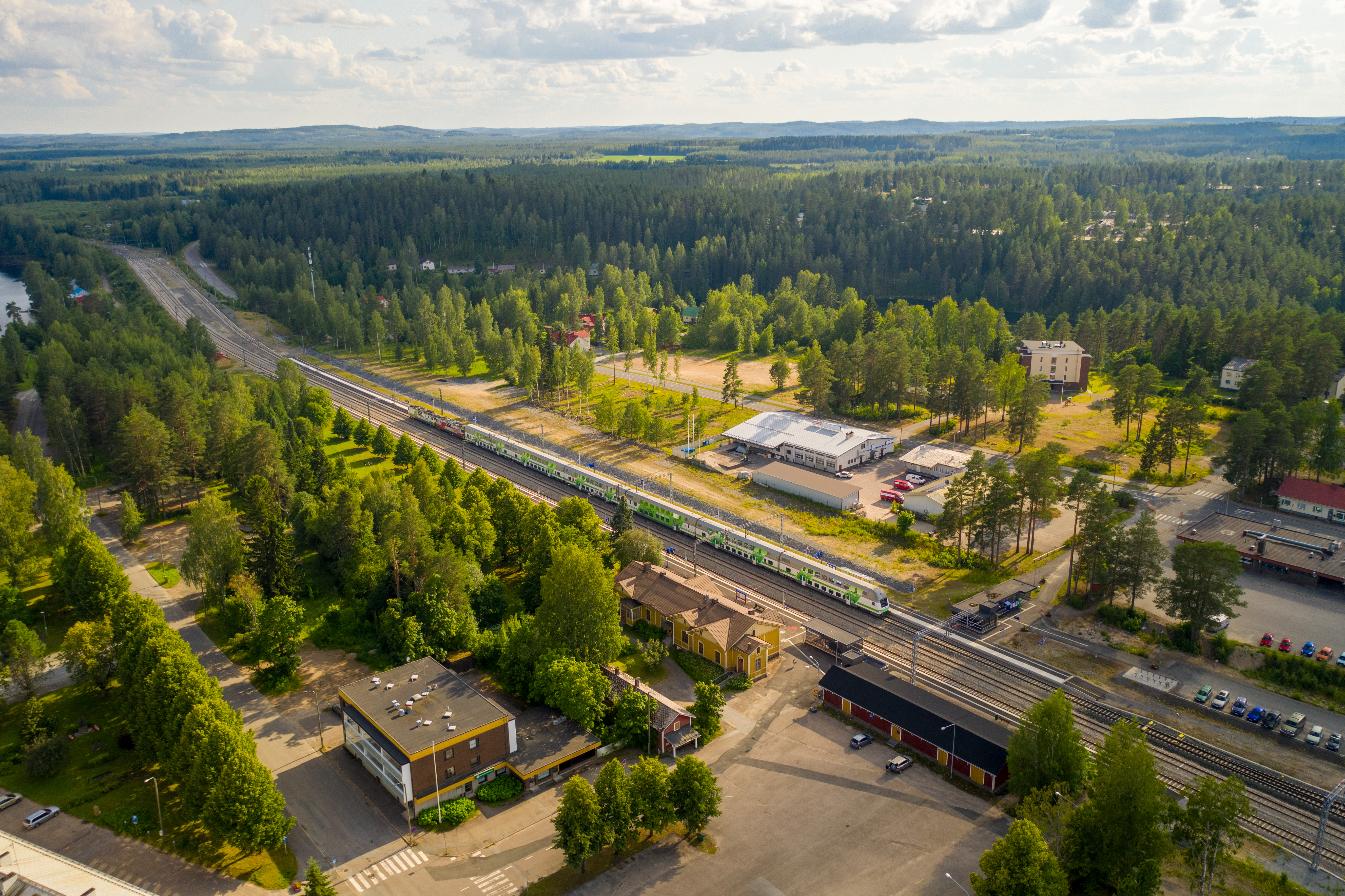 Suonenjoki railway station, Finland